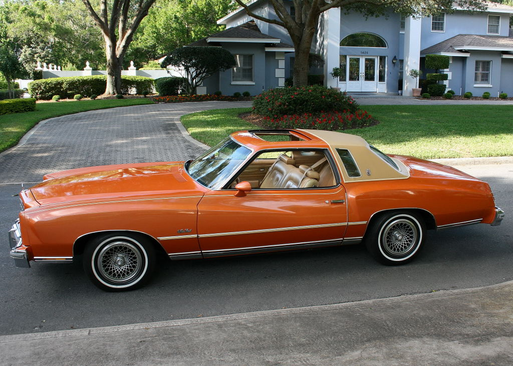 This is a picture of a vehicle (name of it is on the file name).